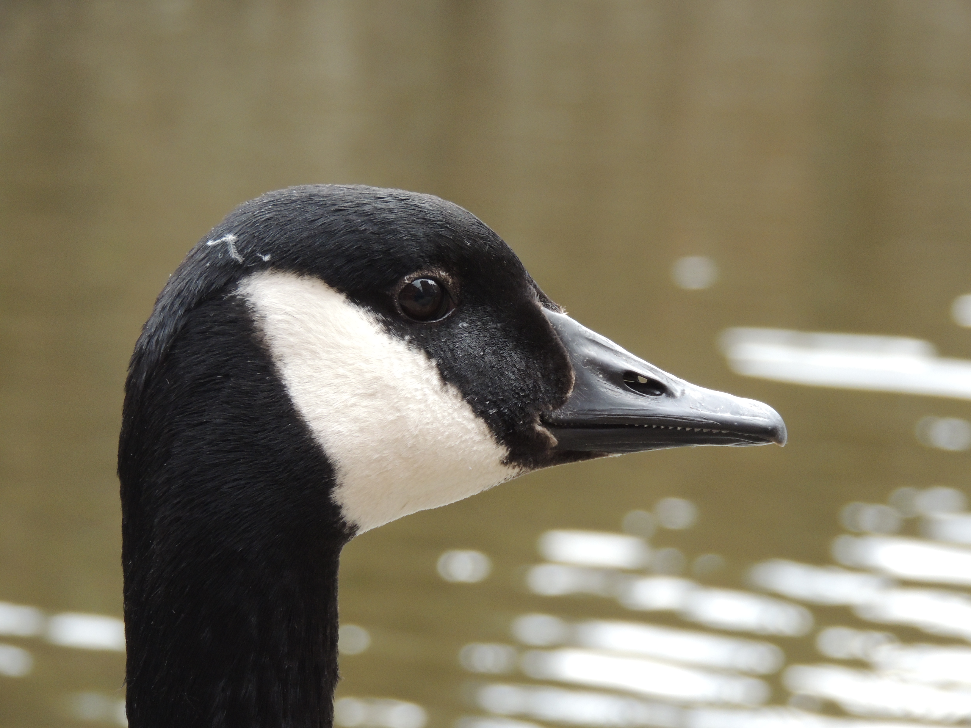 Goose, Manchester